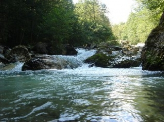 Metsamor River, Armavir Province, Armenia